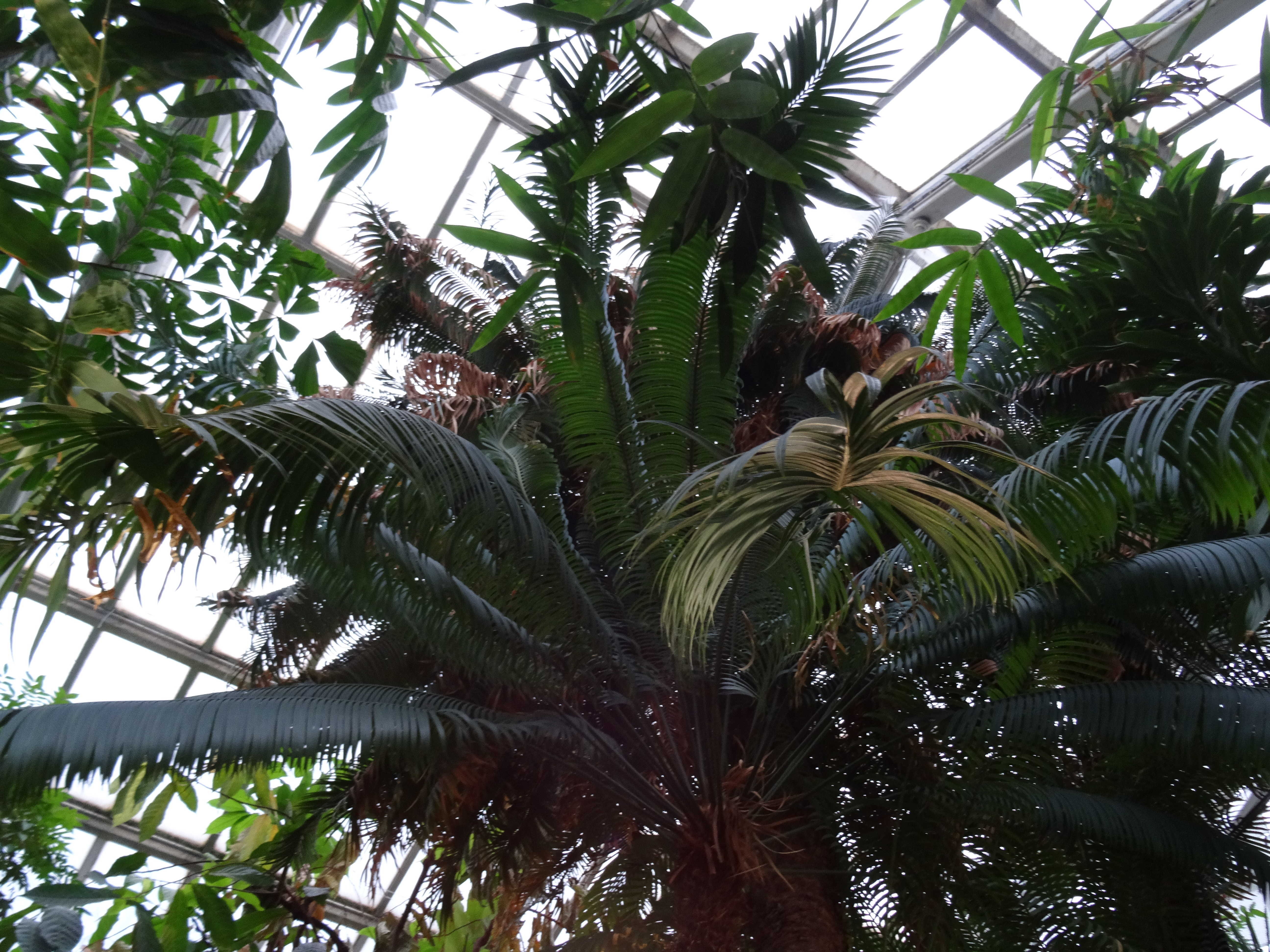 A Cycas zeylanica in the Botanical Gardens in Lund, Sweden